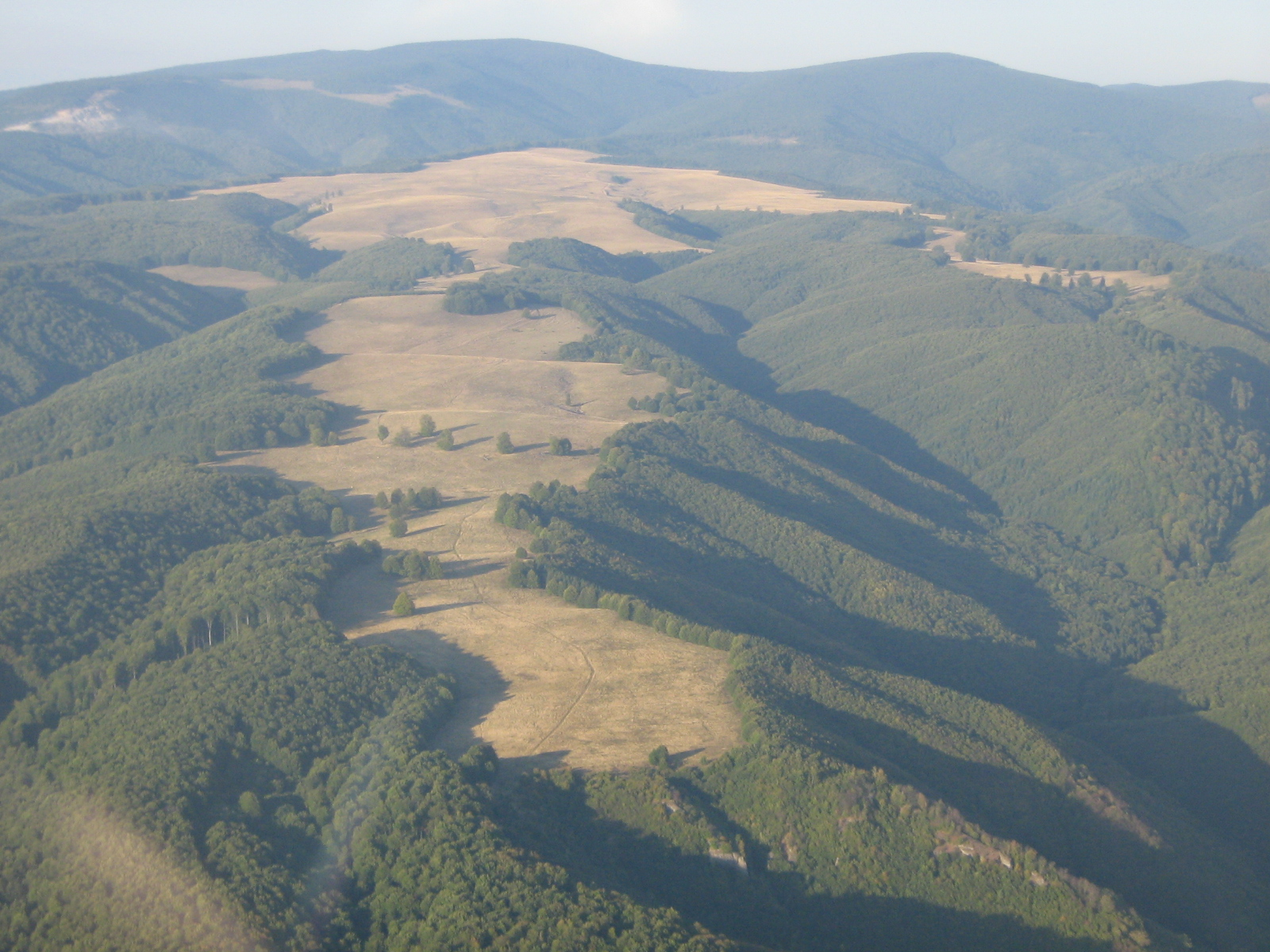 Aerial photo of the southern part of the Ghiurghiului mountains